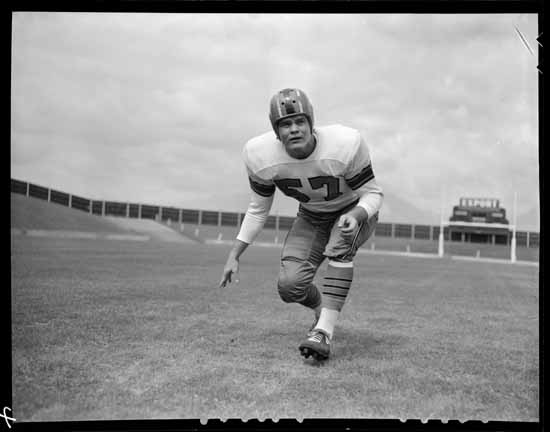 B.C. Lions football club, portraits, individual players, K.Millar VPL Accession Number: 84791C Date: August 21, 1955 Photographer / Studio: Jones, Art Content: Photo series 84791 to 84791AI Topic: Football players Portrait Stadiums Location: British Columbia - Vancouver - Hastings-Sunrise - Hastings Community Park Copyright Restrictions: Public Domain